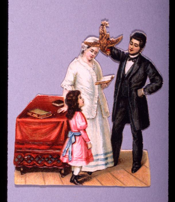 Lithography of a man holds fowl for Kapparot on Yom Kippur eve, late 19th / early 20th century, Yeshiva University Museum Notes: Kapparot man holds fowl, woman w. prayerbook & young girl